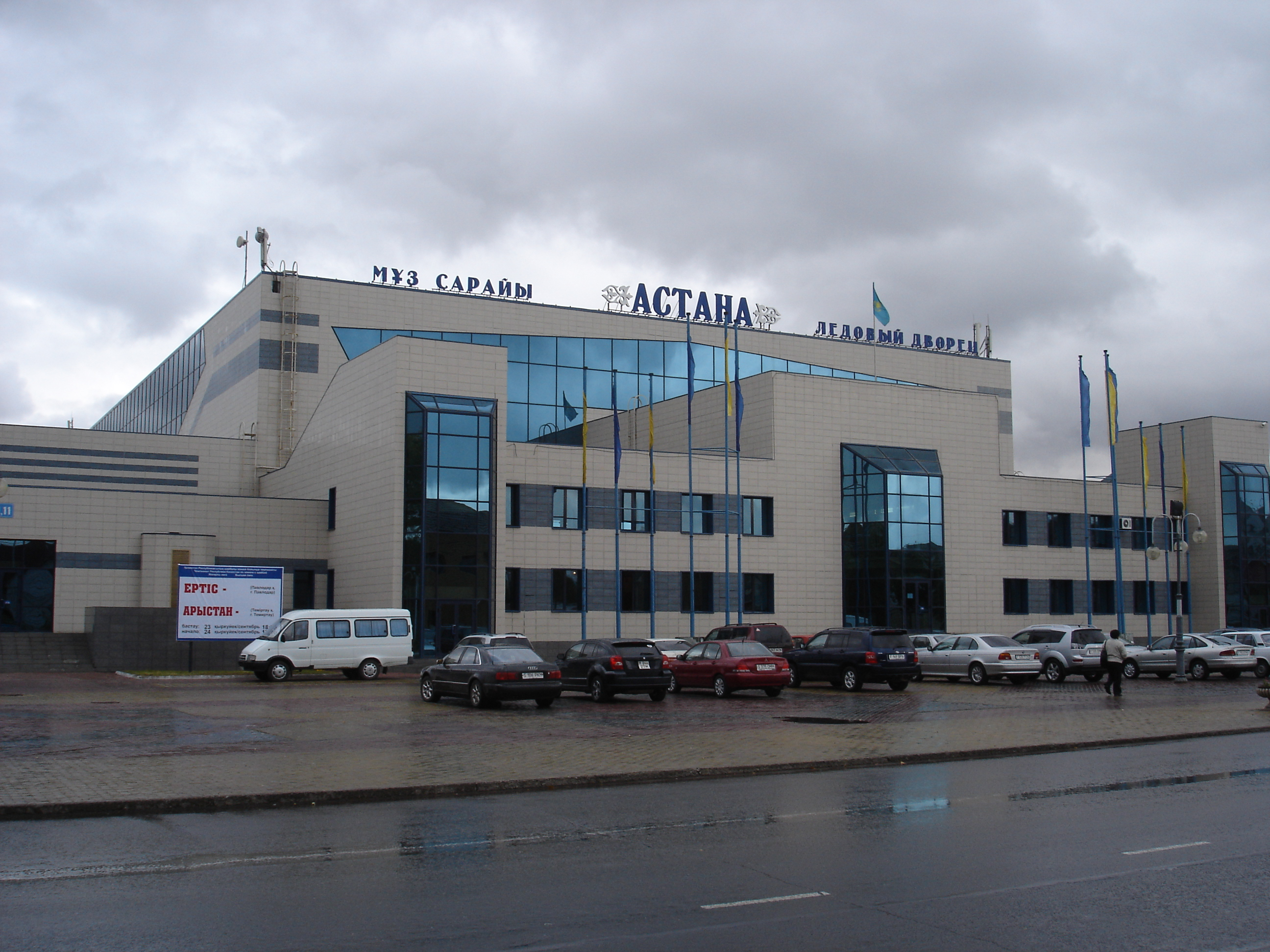 Ice hockey stadium Astana, Pavlodar, Kazakhstan.